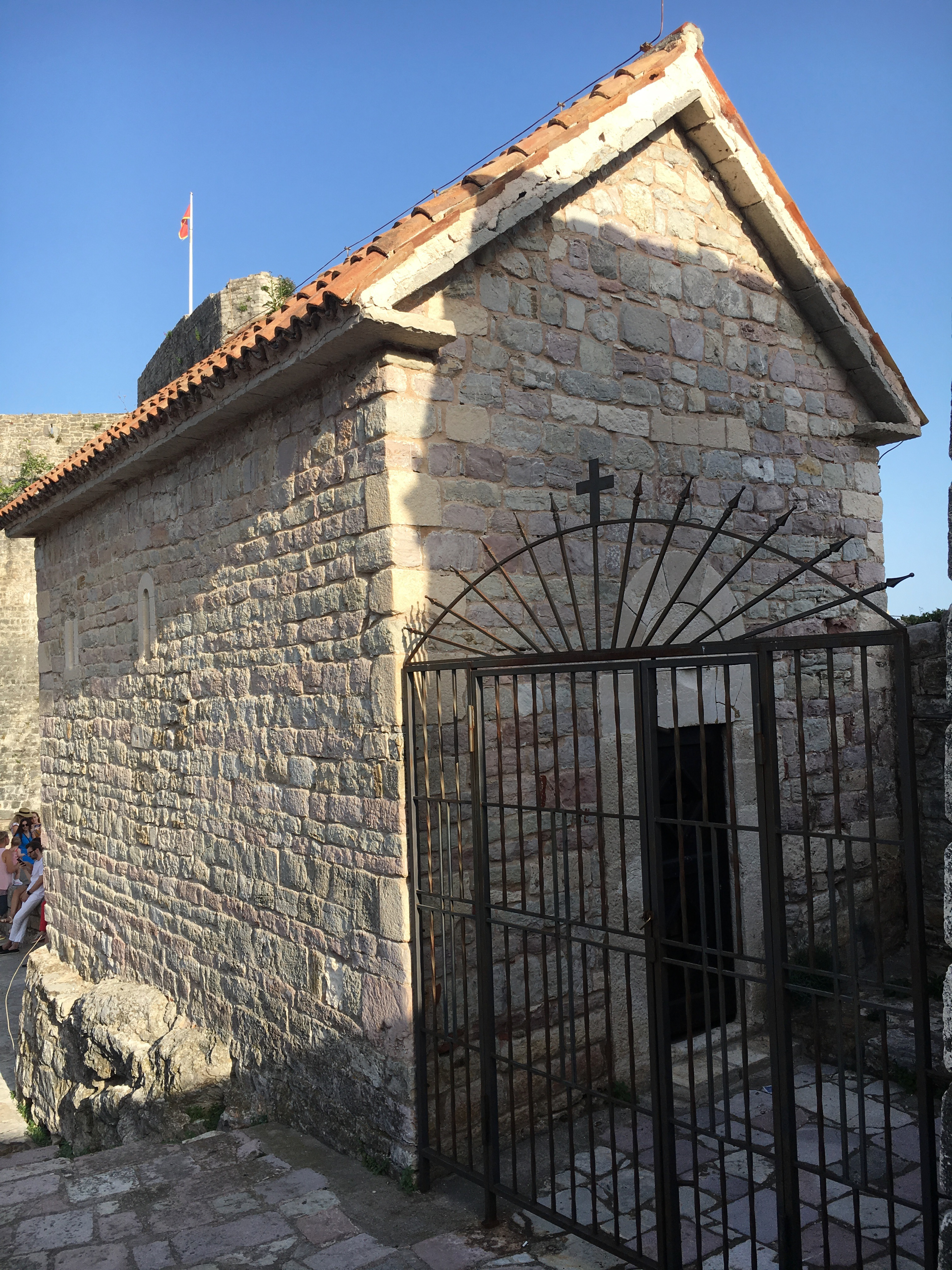 St.Sava church in Budva (Montenegro), front view with the entrance.